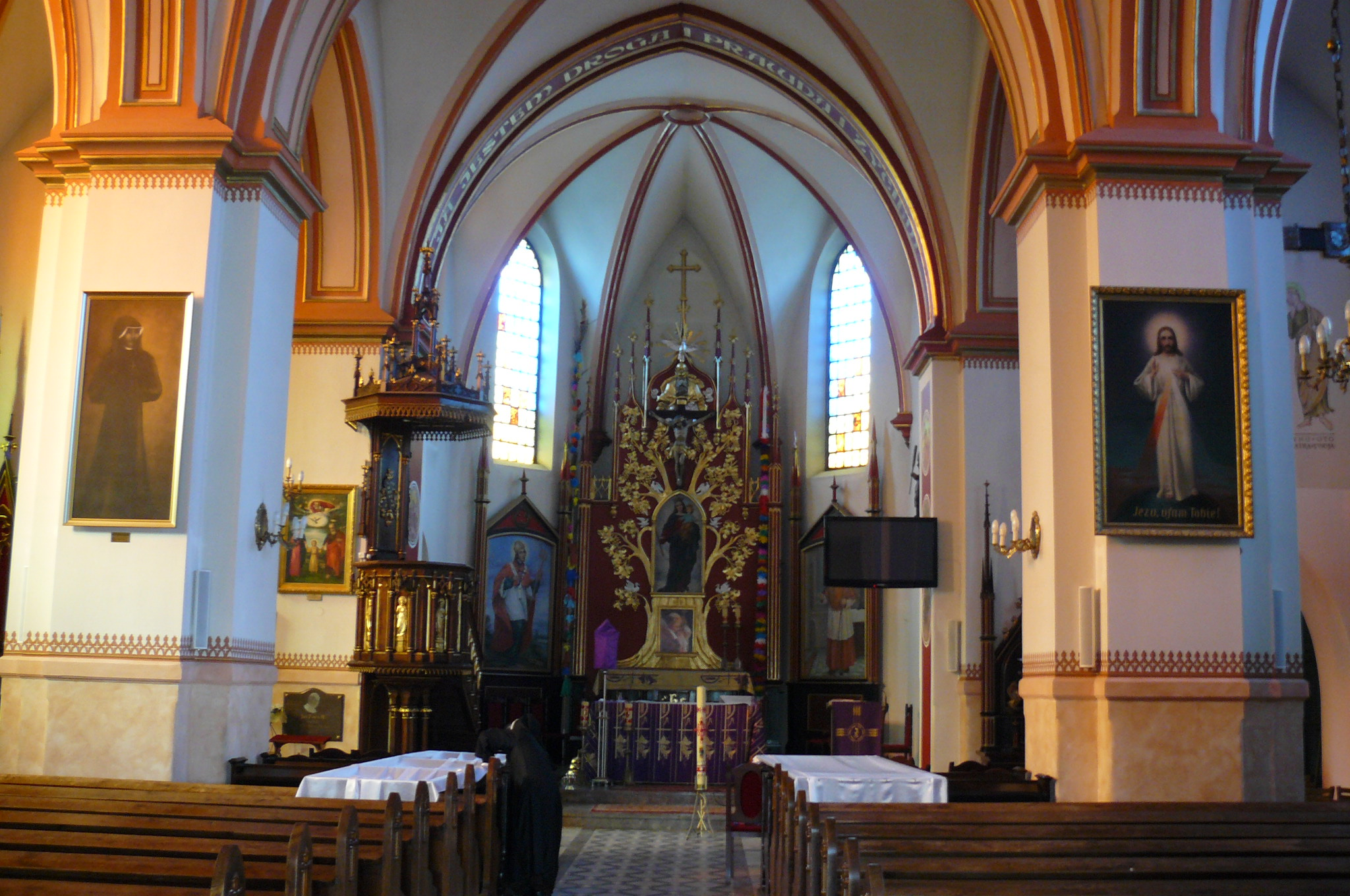 Interior of St.Gothard Church in Kalisz.